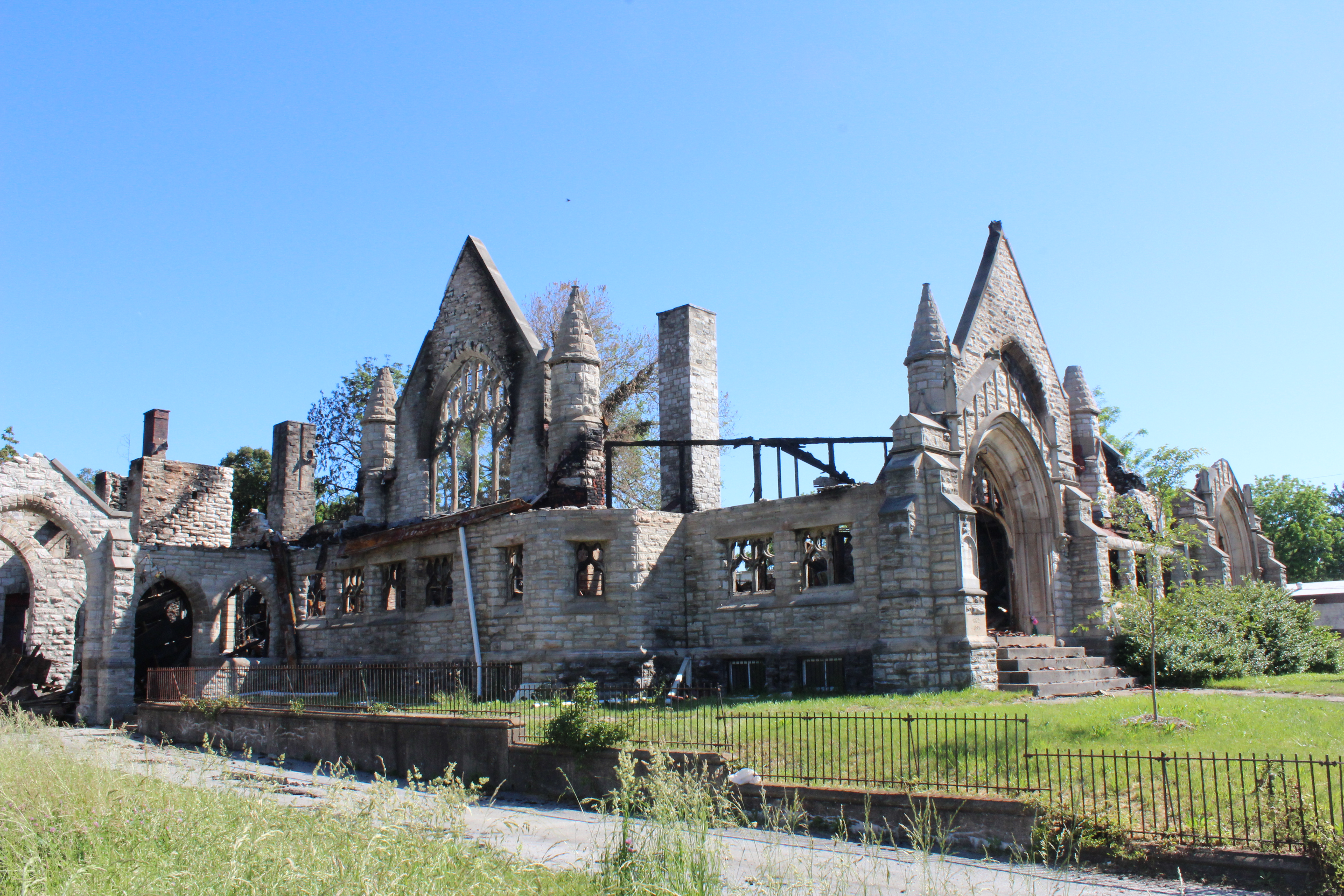 Third Presbyterian Church after May 2020 Fire - Side View. Photo taken May 2020.